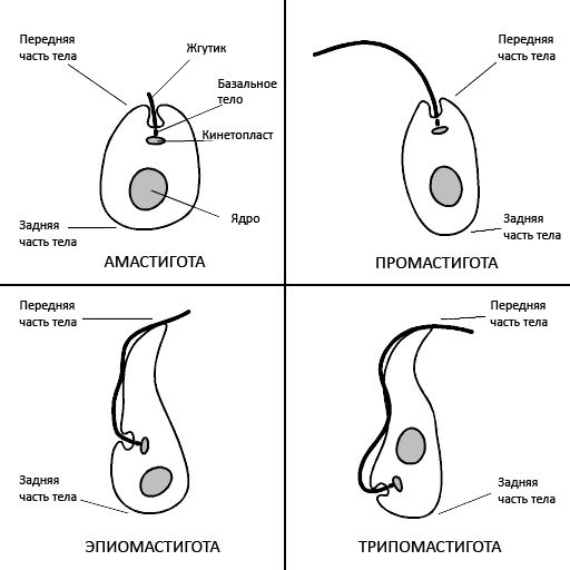 Trypanosomatid cellular forms, description in Russian. Originally By Richard Wheeler (Zephyris) 2006, translation by User: Vicki Doronina